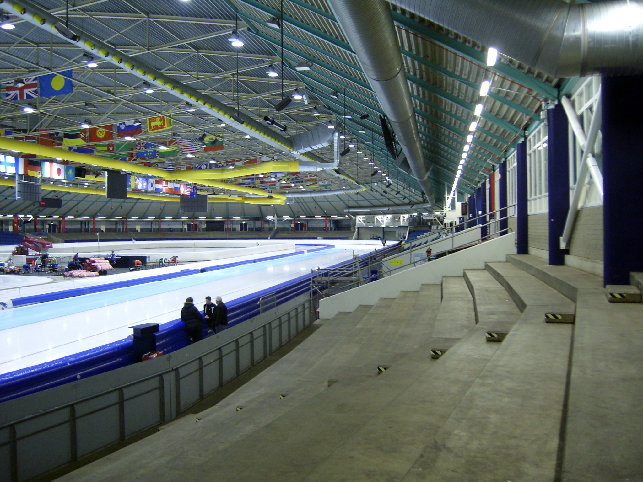 Thialf, Heerenveen, 9th Masters International Long Distance Races 2012